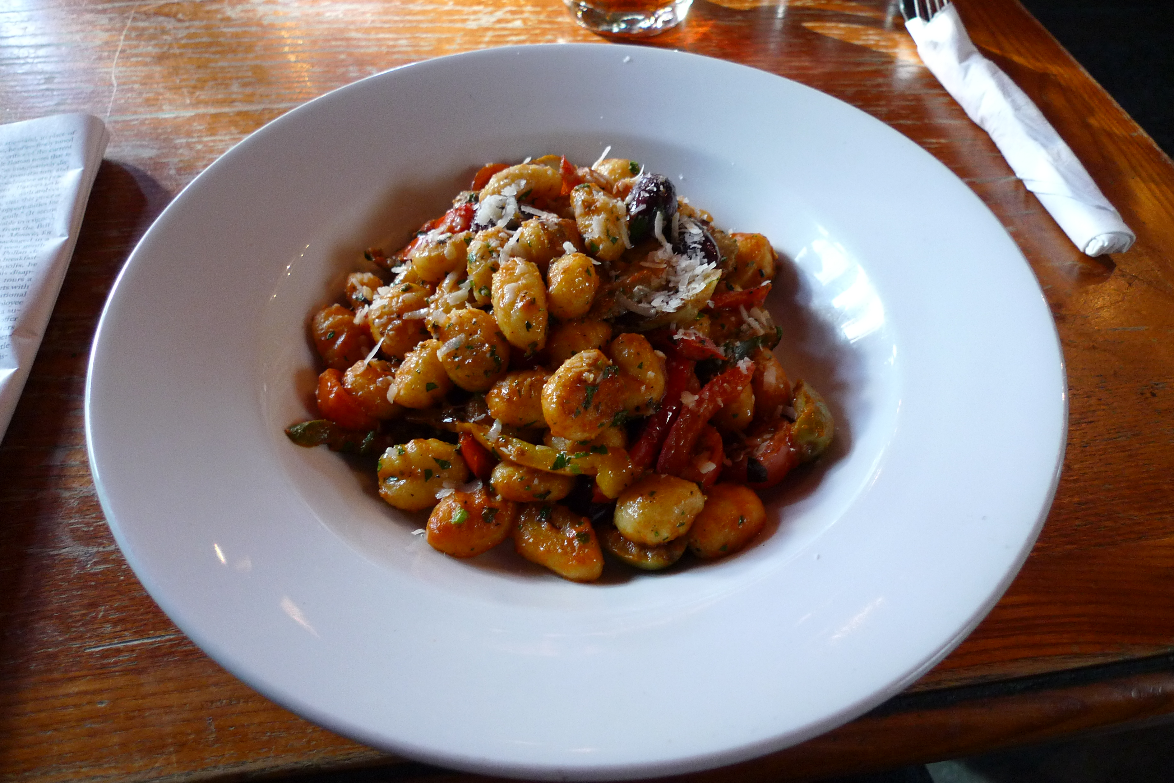 The gnocchi with artichokes, roasted red pepper, cherry tomatoes, olives and parmesan. Quite nice. At The North London Tavern, Kilburn High Road.